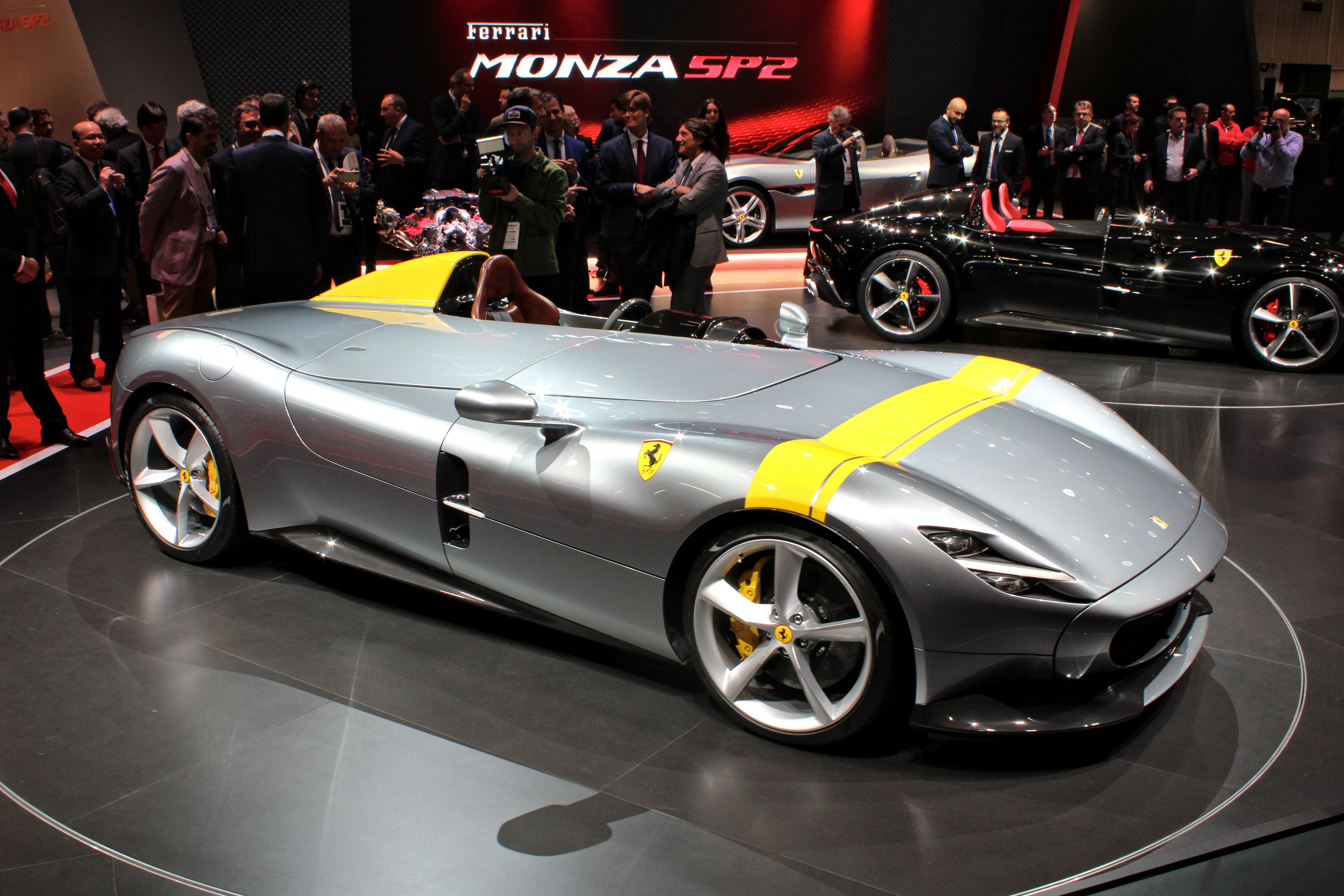 Ferrari Monza SP1 at Paris Motor Show 2018